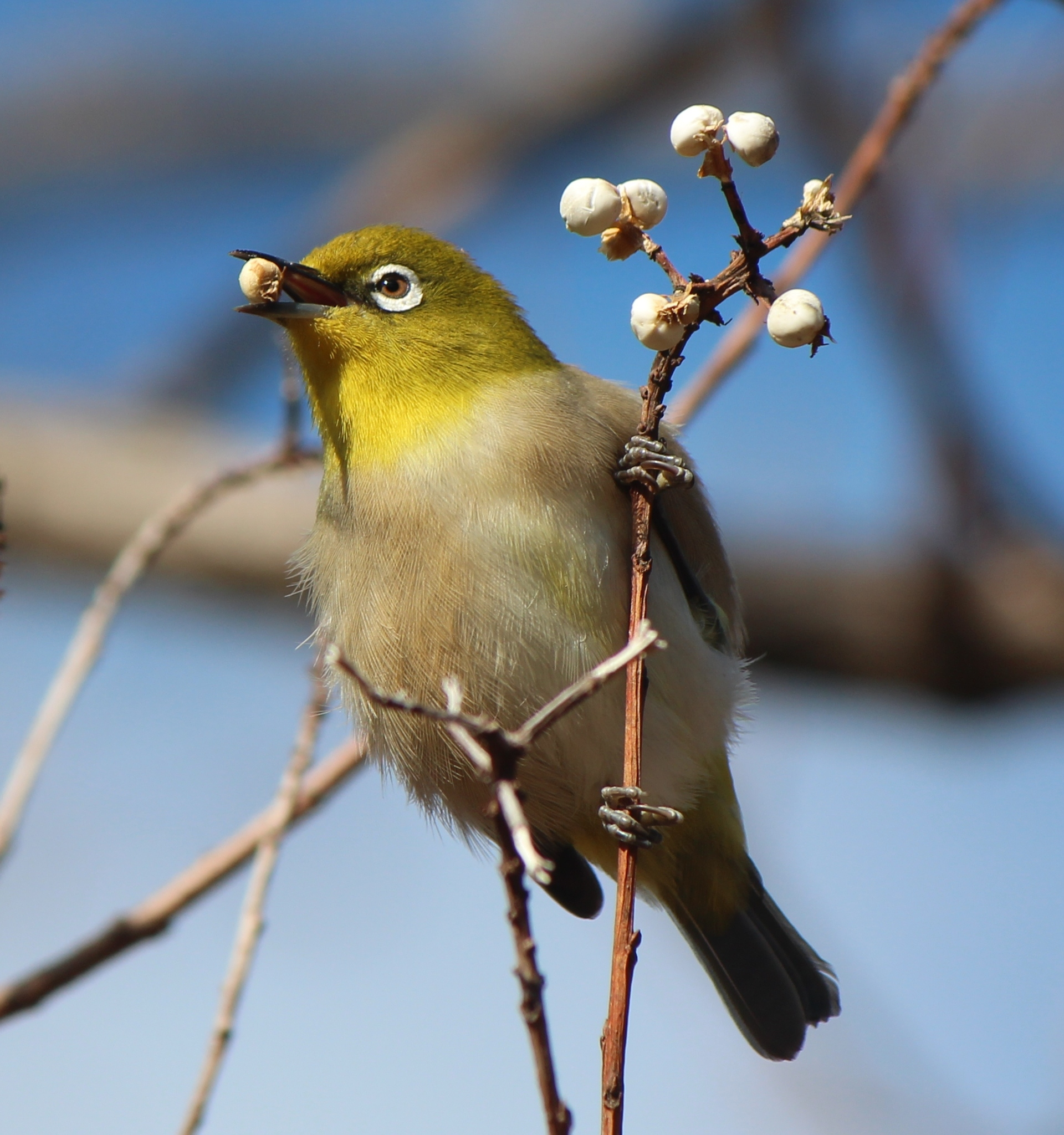 Japanese White-eye (Zosterops japonicus) eating seed of Triadica sebifera in Japan.